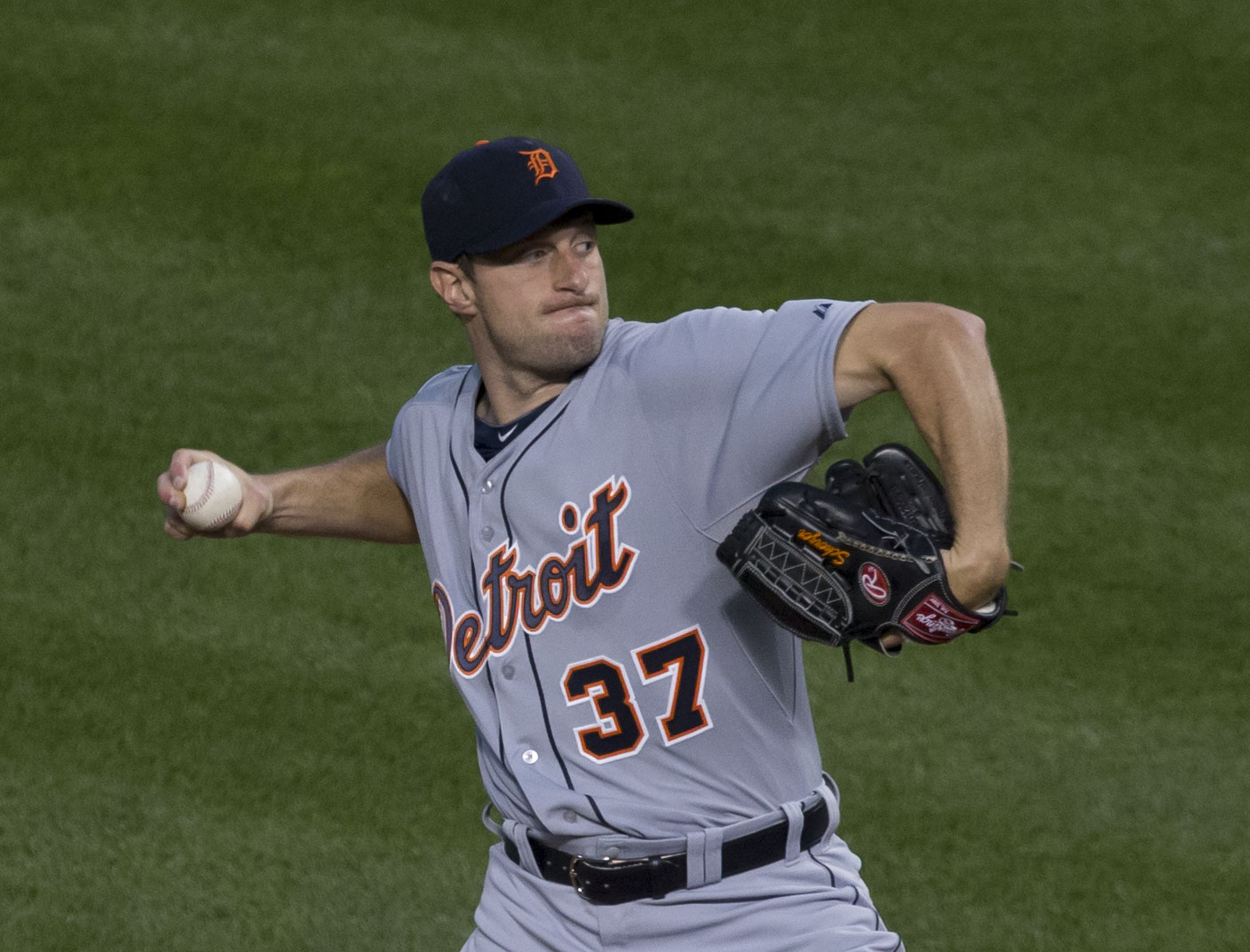 Max Scherzer of the Detroit Tigers pitches against the Baltimore Orioles during Game One of the American League Division Series at Oriole Park at Camden Yards on October 2, 2014 in Baltimore, Maryland.